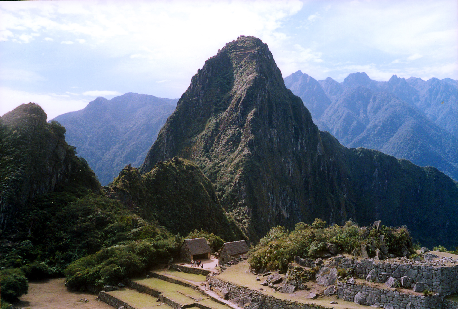 General view of Huyna Picchu, seen from Machu Picchu, Peru.